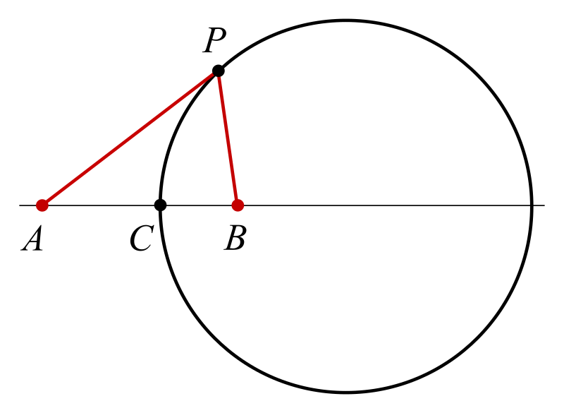 Apollonius circle